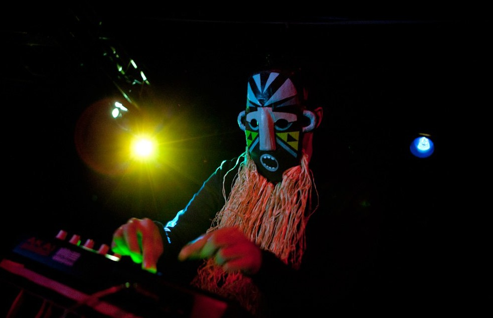 SBTRKT performing at Together 2011